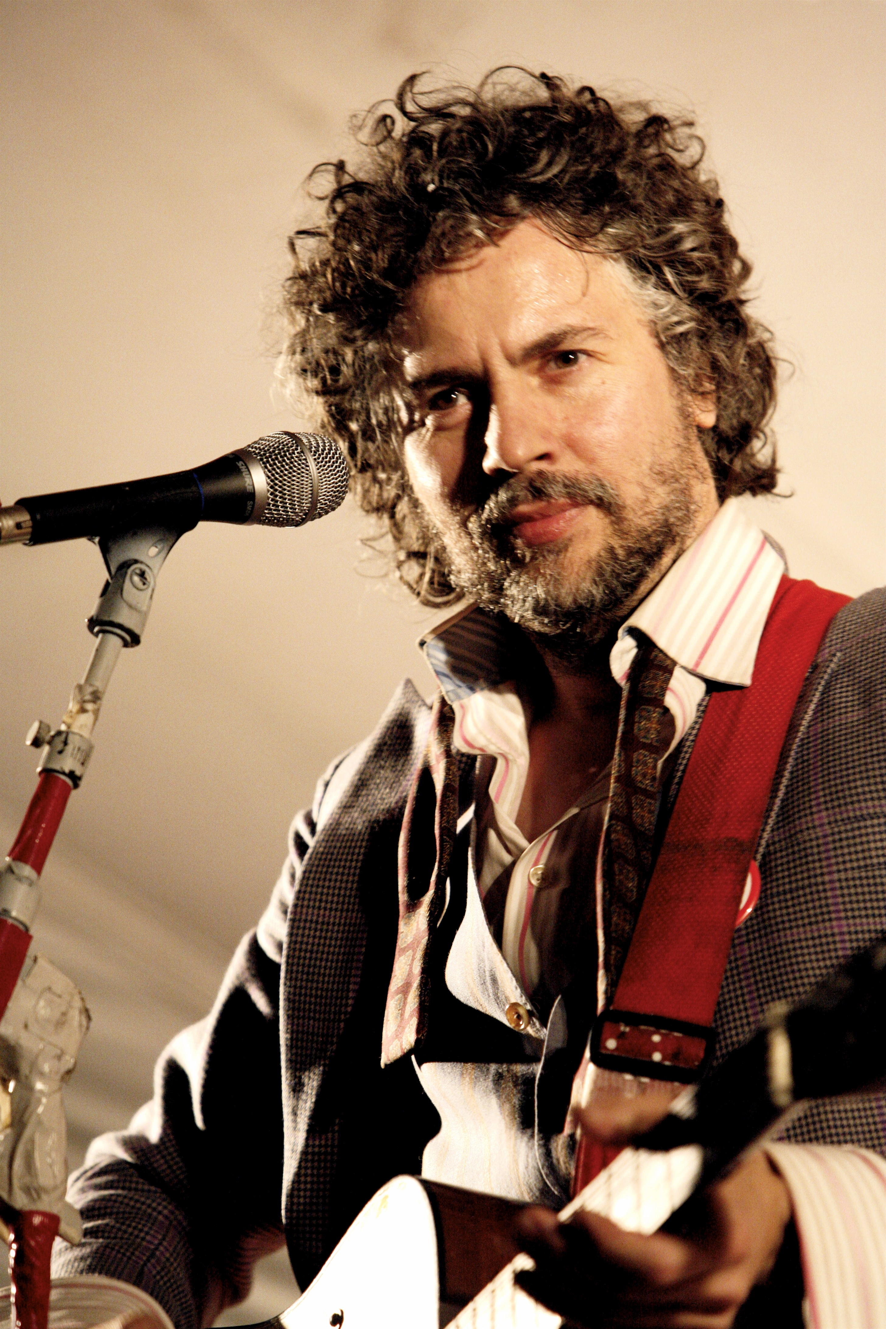 Wayne Coyne from the Flaming Lips performing in 2006 photographed by Kris Krug